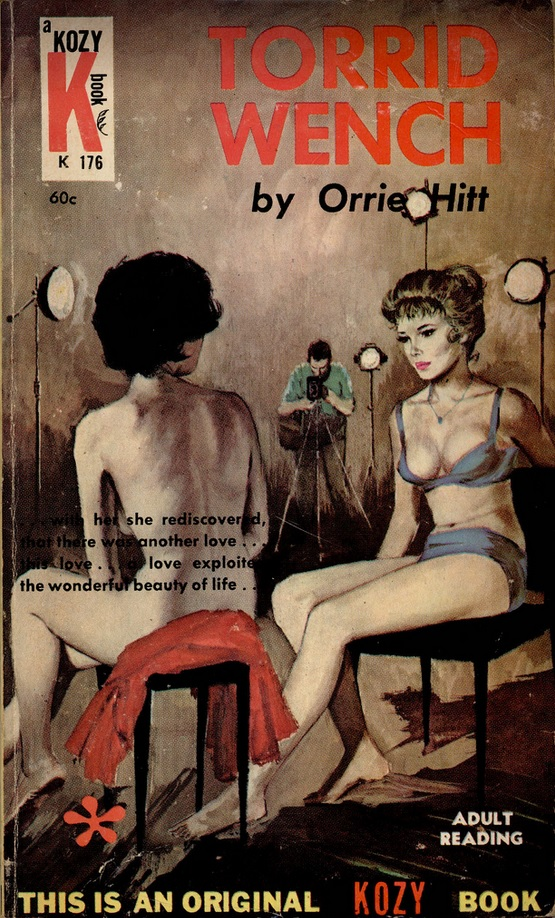 Cover of "Torrid Wench" by Orrie Hitt.